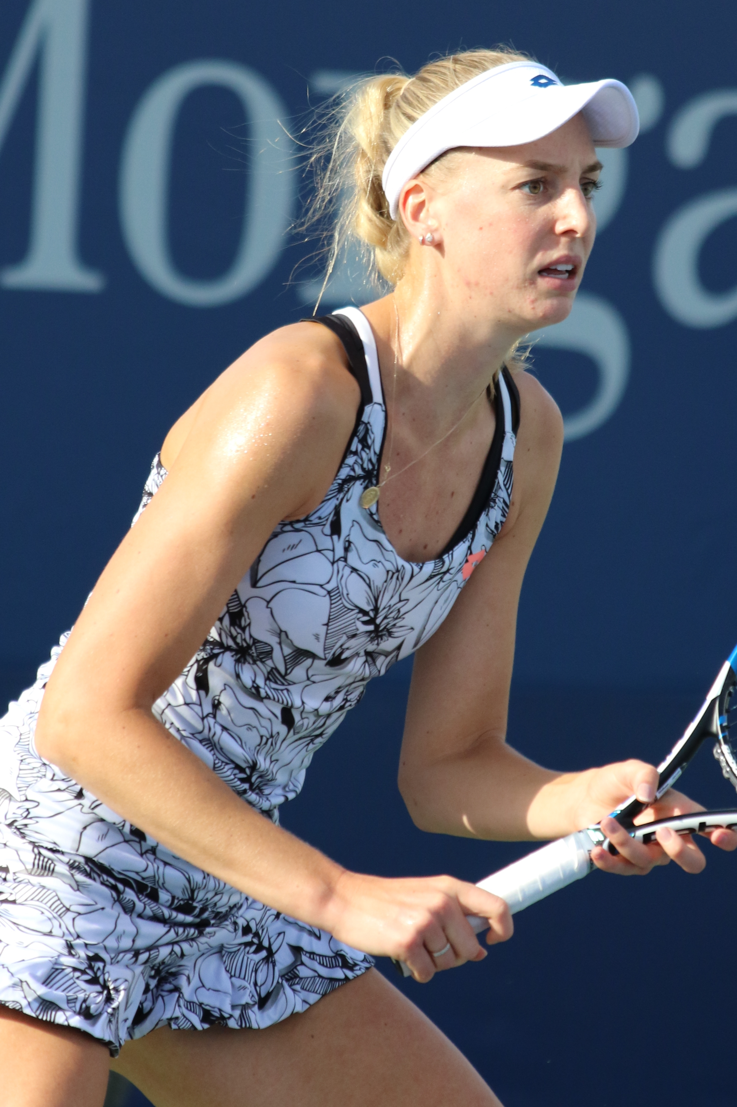 Broady US16 (49)